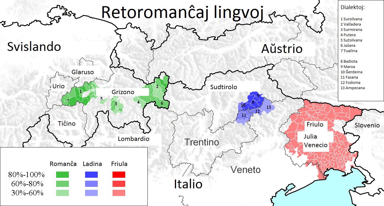 Distribution map of Rhaeto Romance languages